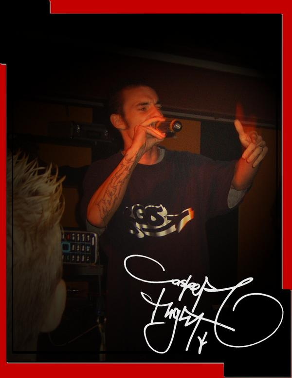 Casper Hight